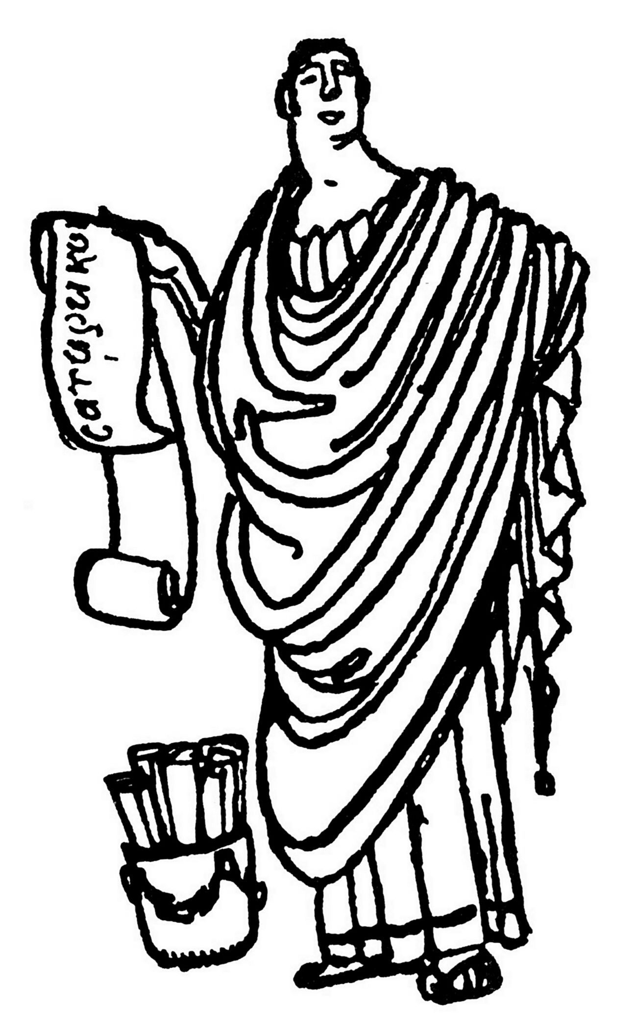 The illustration for the humorous book The General History Edited by Satyricon. Petronius holds a scroll of the novell Satyricon.